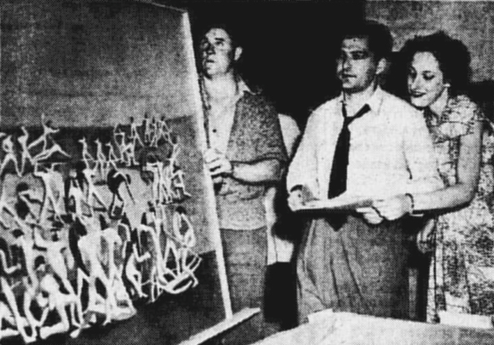 Claude Bonin-Pissarro at Tasmanian Museum 19 January 1953